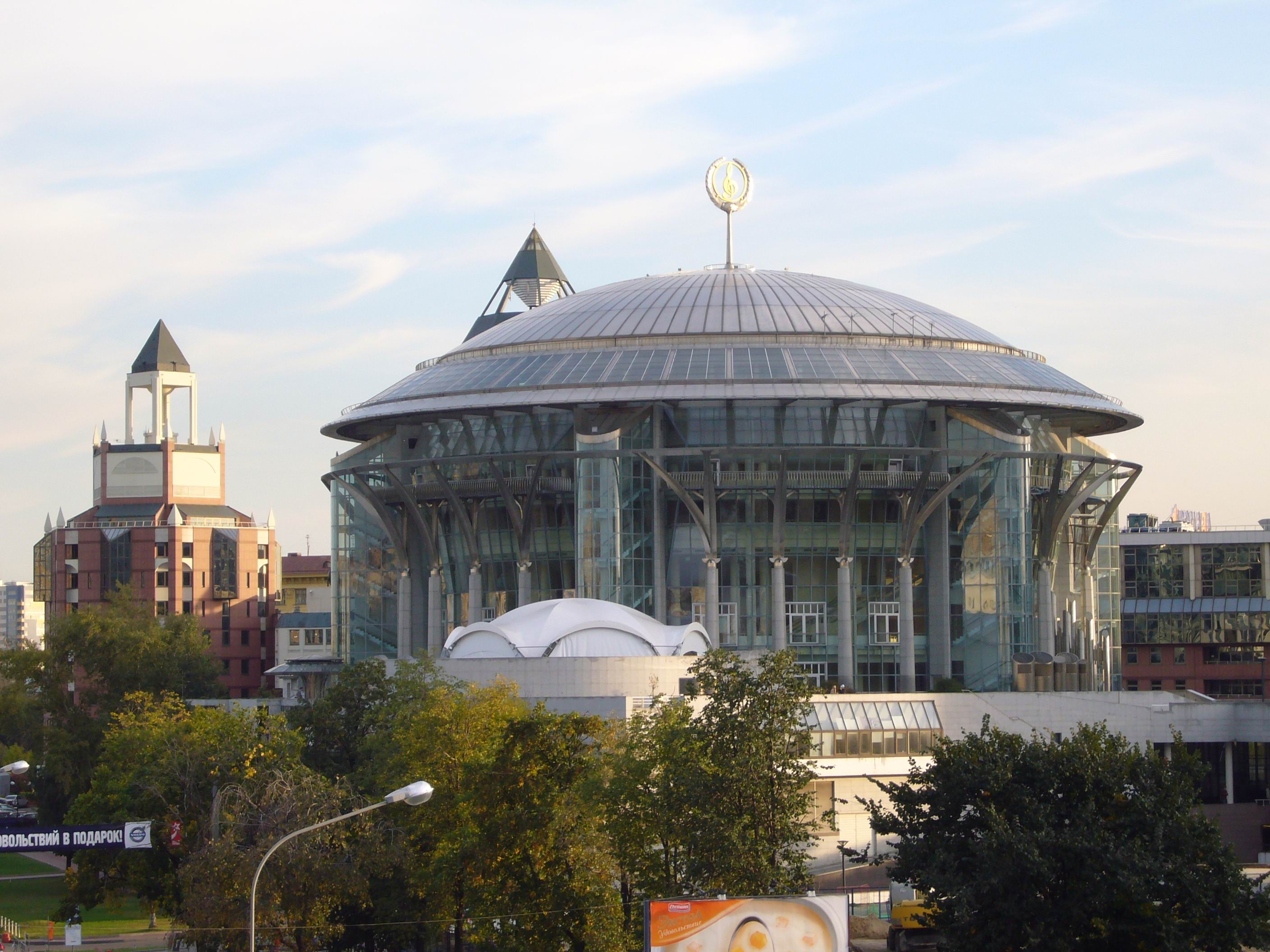 Krasnye Holmy, Music House